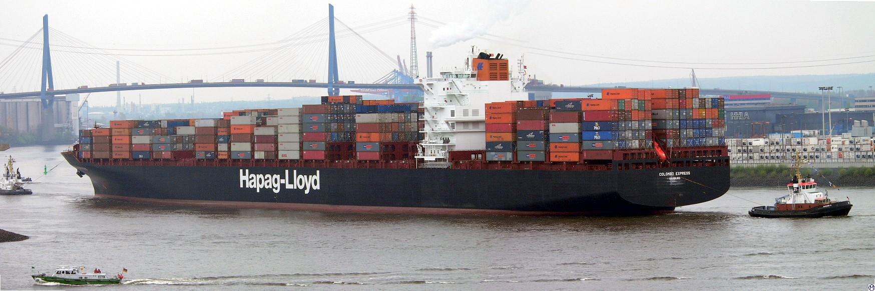 The Colombo Express, one of the largest container ships in the world, owned and operated by Hapag-Lloyd of Germany on its maiden voyage into Hamburg, with the Köhlbrand bridge in the background IMO Number: 9295244 MMSI Number: 211433000 Callsign: DIHC Length: 336 m Beam: 42 m